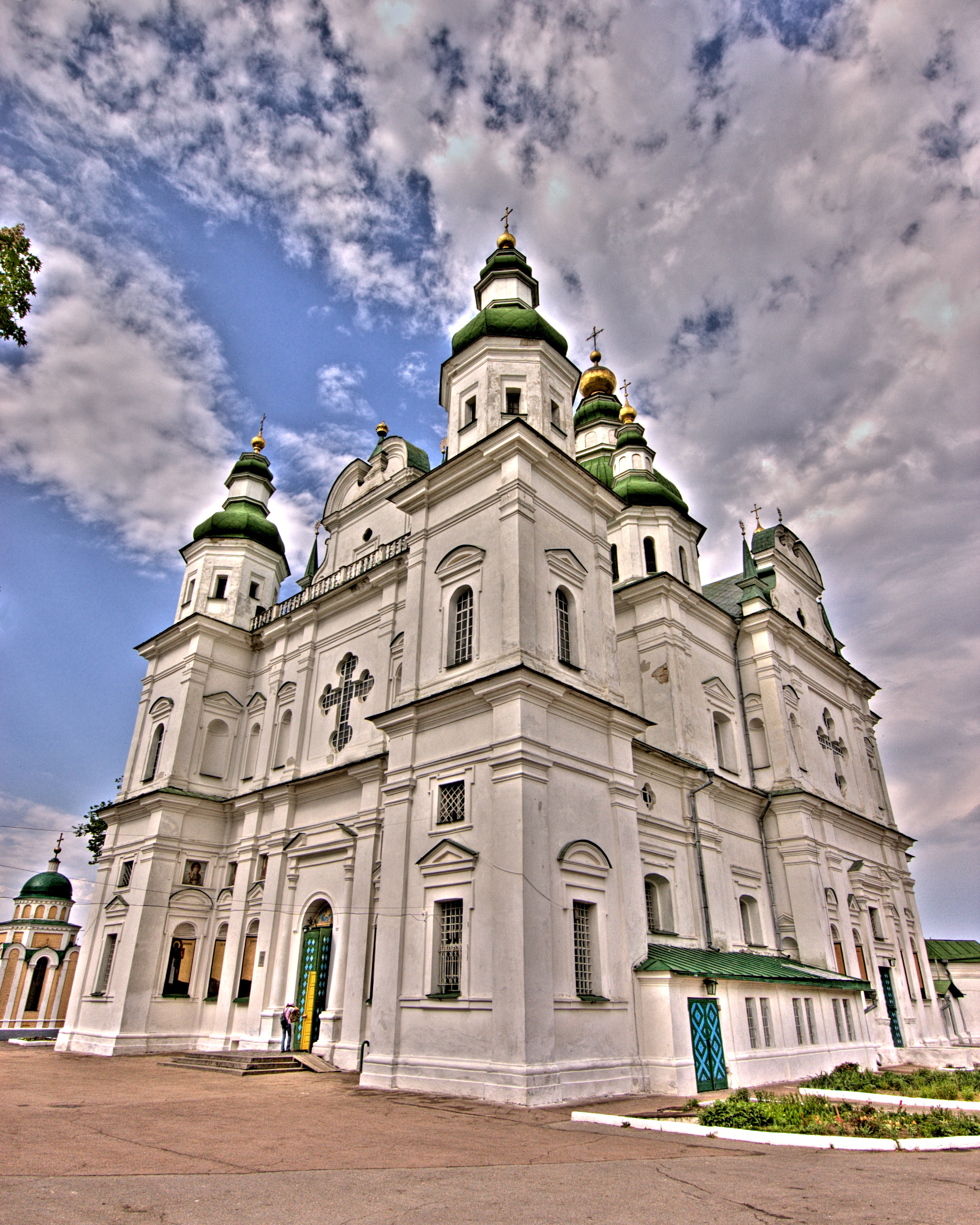 Chernigov. Holy Trinity Cathedral (1695)